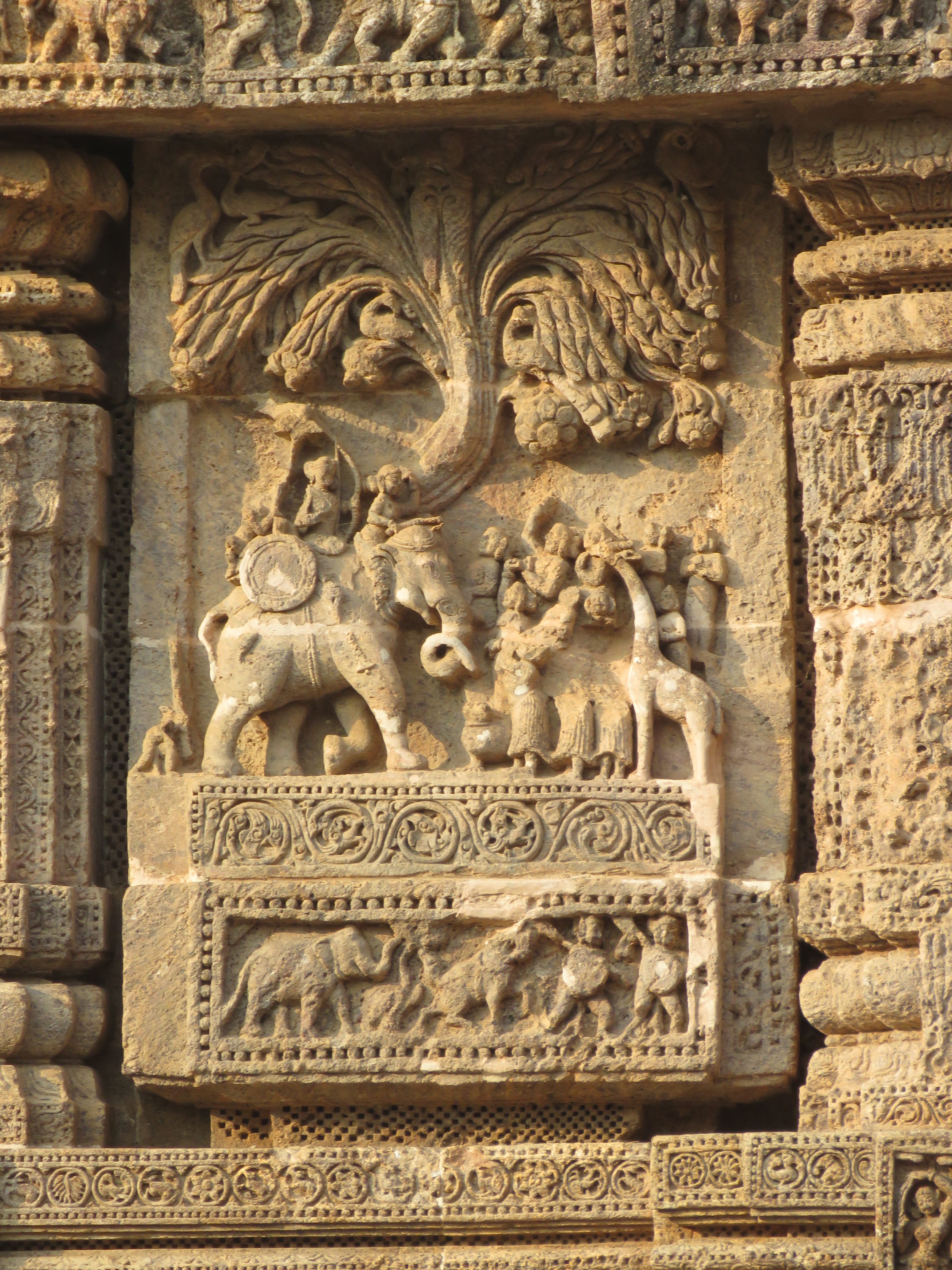 Konark Sun Temple is a 13th century Sun Temple (also known as the Black Pagoda), at Konark, in Orissa. It was constructed from oxidized and weathered ferruginous sandstone by King Narasimhadeva I (1238-1250 CE) of the Eastern Ganga Dynasty. The temple is an example of Orissan architecture of Ganga dynasty . The temple is one of the most renowned temples in India and is a World Heritage Site.